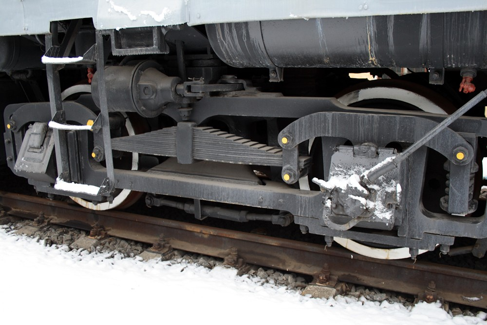 Bogie of TE2 Soviet diesel locomotive.